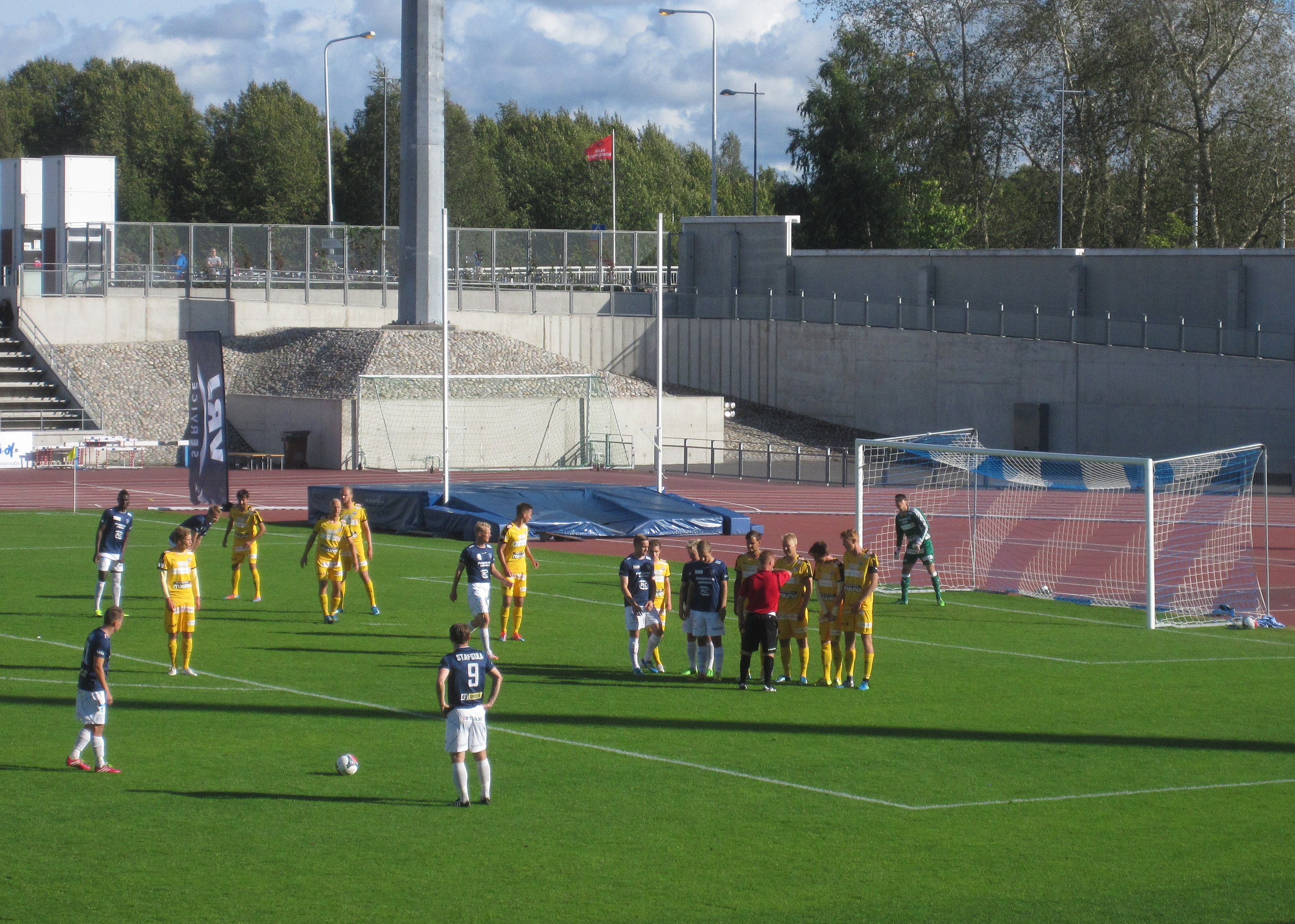 AC Oulu vs TPS at the Raatti Stadium in Oulu.